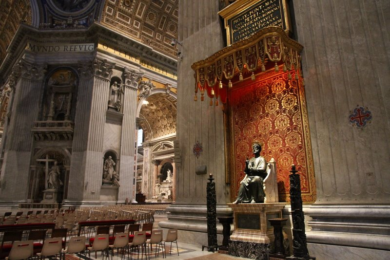 Inside St. Peter's Basilica, St. Peter's statue.